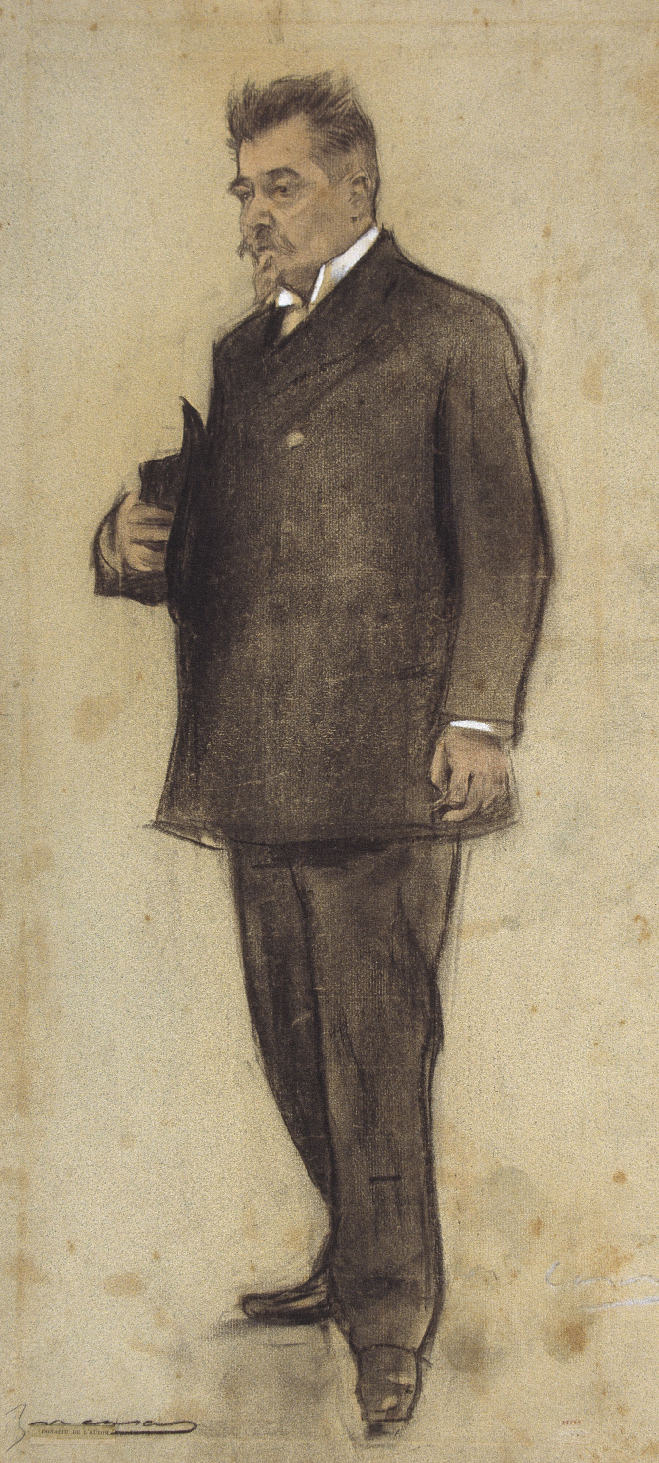 Portrait by Ramon Casas conserved at MNAC in Barcelona.